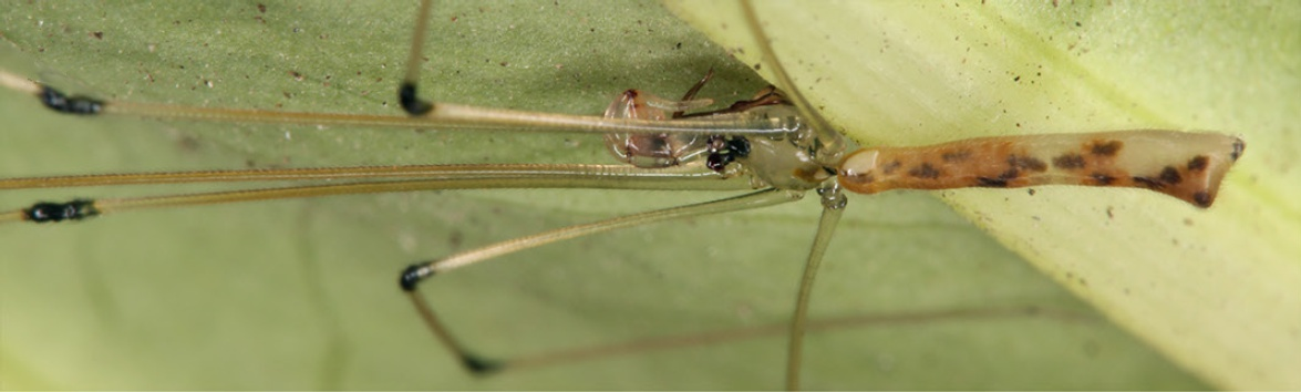 Panjange lanthana from Mount Isarog, Philippines. male.